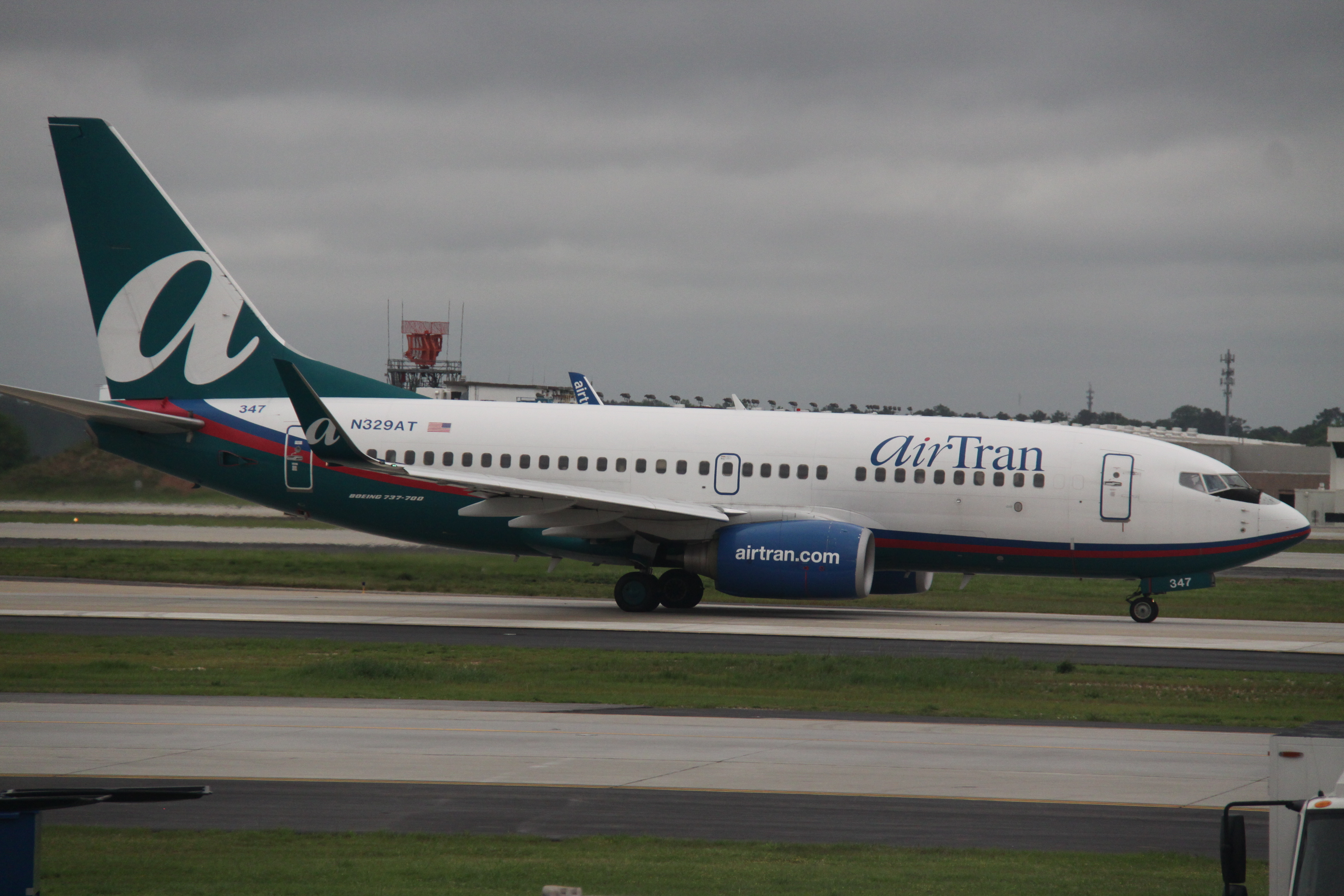 At Hartsfield-Jackson Atlanta International